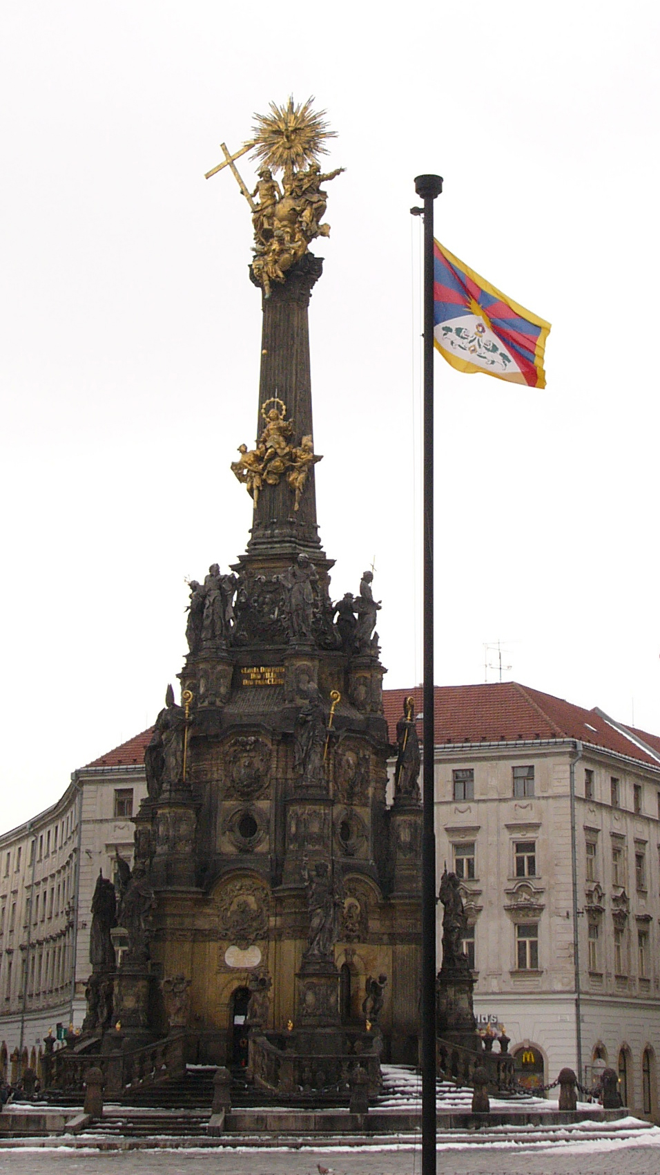 Holy Trinity Column in Olomouc (Czech Republic) with Tibetian flag.